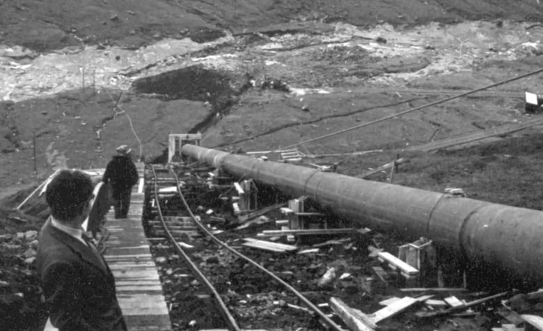 From the contruction work of the hydropower plant in Vestmanna, Faroe Islands in thw 1950's.